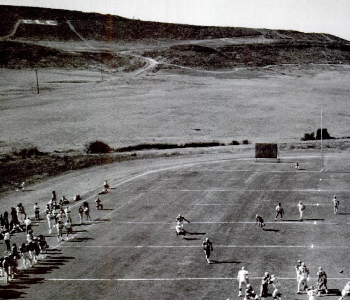 Dallas Cowboys NFL football team practicing below Mount Clef Ridge at California Lutheran College, Thousand Oaks, CA.